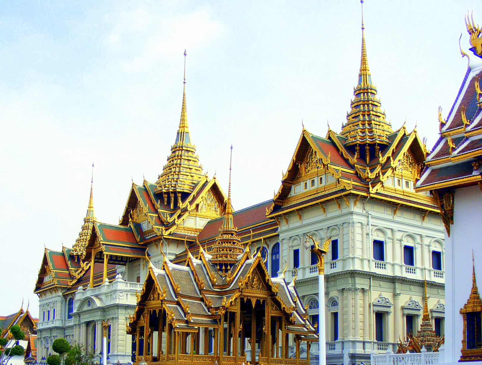 The Grand Palace of Thailand Location: Bangkok, Thailand.